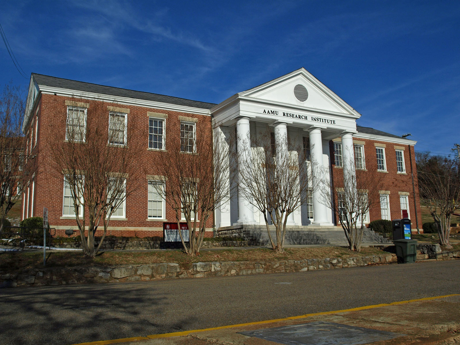 The Carnegie Library on the campus of Alabama A&M University.